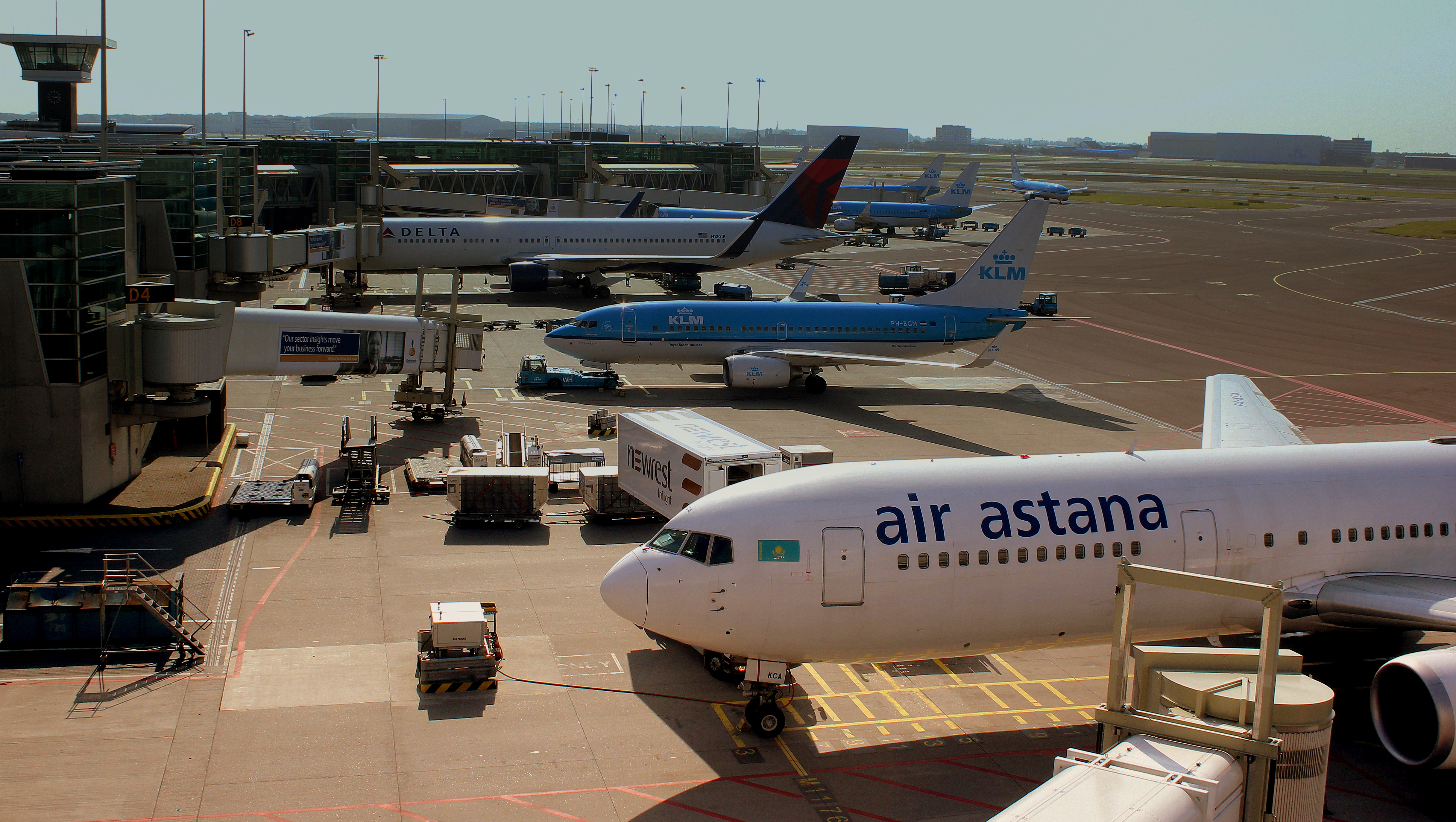 AMSTERDAM SCHIPOL AIRPORT HOLLAND JUNE 2013